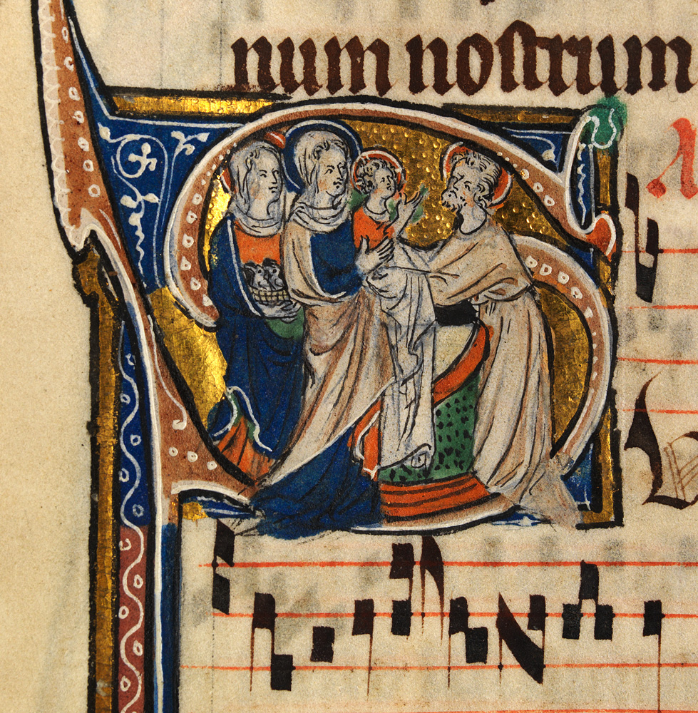 This beautiful Missal made from parchment originates from East Anglia. It is considered a very important manuscript as it is one of the earliest examples of a Missal of an English source. Sarum Missals were books produced by the Church during the Middle Ages for celebrating Mass throughout the year